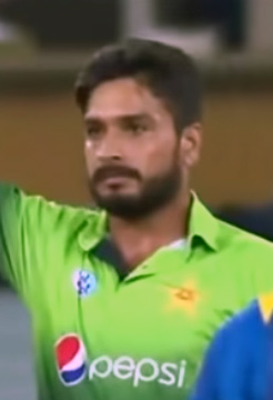 Rumman Raees bowling during the cricket match, Pakistan vs Sri Lanka, October 2017